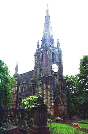 Kirkstall, Leeds, St Stephen's Church.